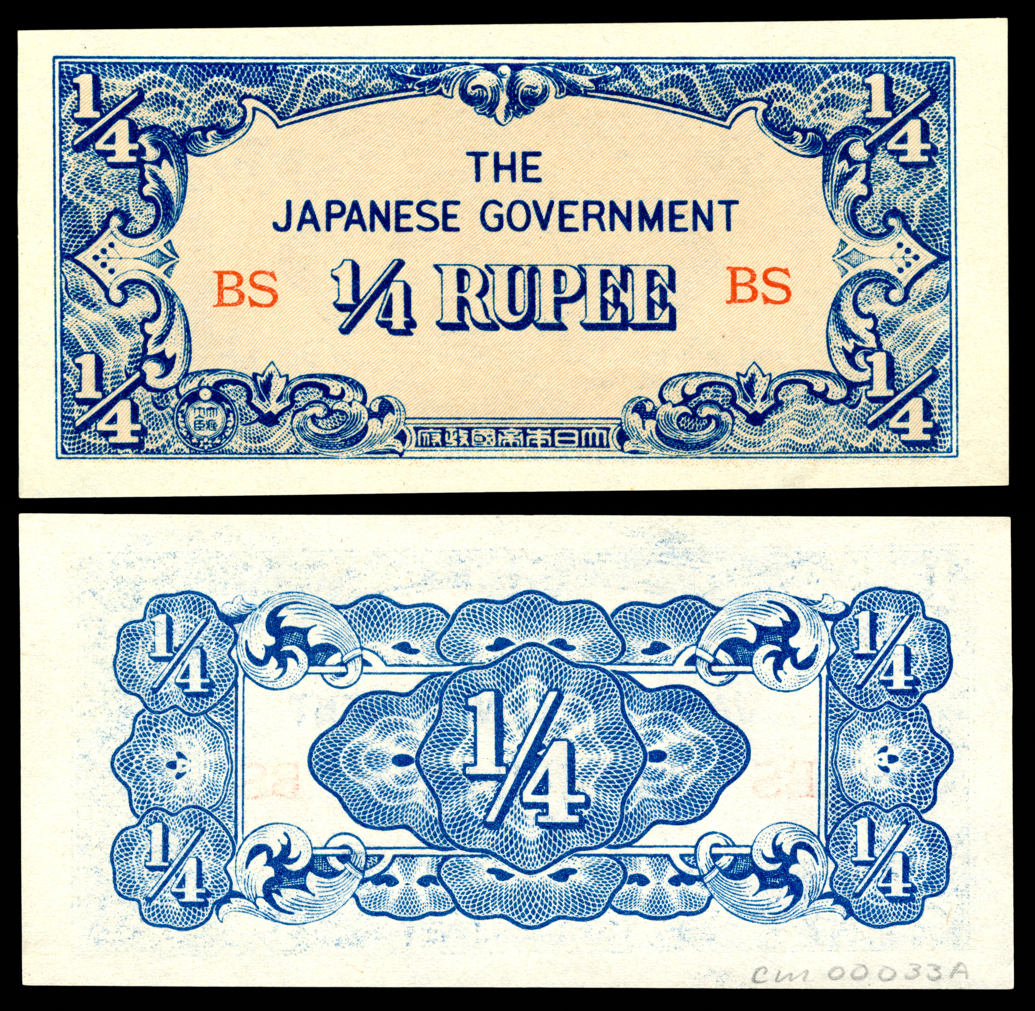 Japanese Government (Burma), One Quarter Rupee (1942) The Japanese government-issued rupee in Burma, part of the Japanese invasion money of World War II, was issued between 1942 and 1945 by the occupying Japanese government.